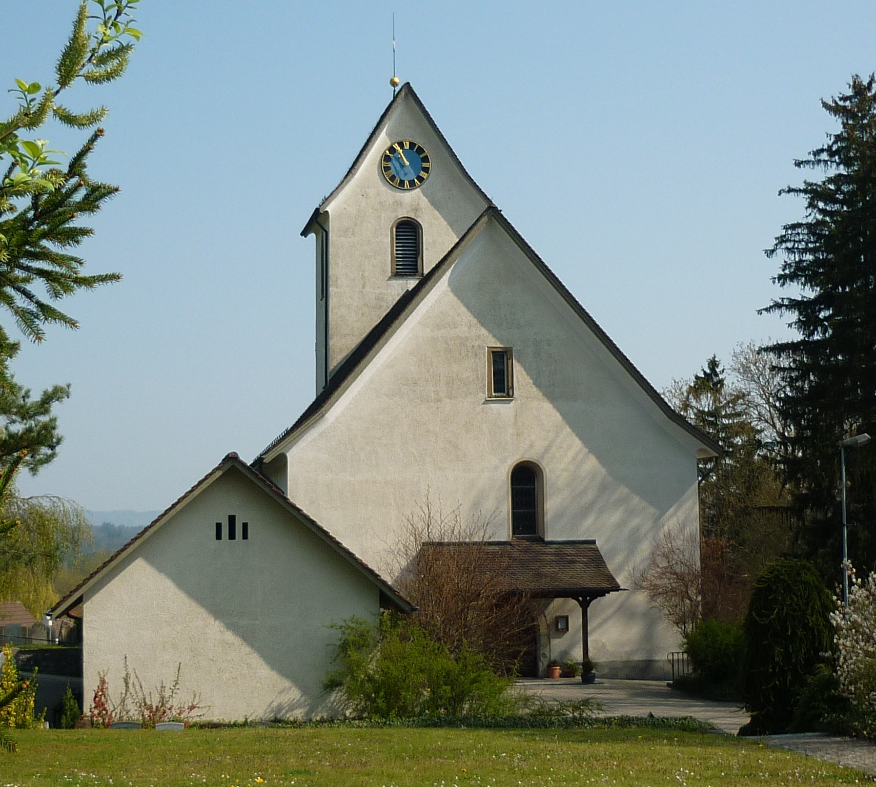 Old church in Flaach ZH, Switzerland